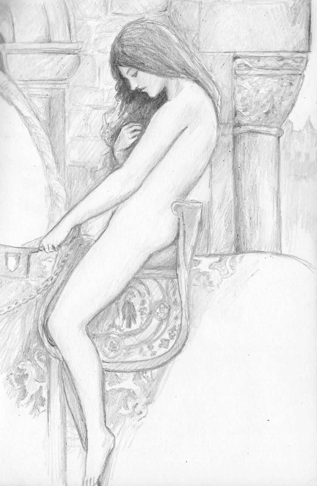 Sketch for Lady Godiva